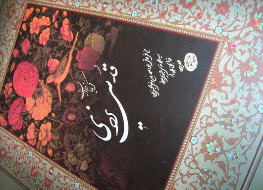 دیوان حاج قدسی یزدی